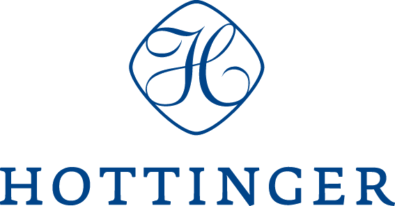 Logo of Hottinger & Cie SA.